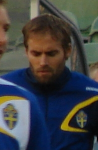 Taken at Ullevi for the match between Sweden and USA.